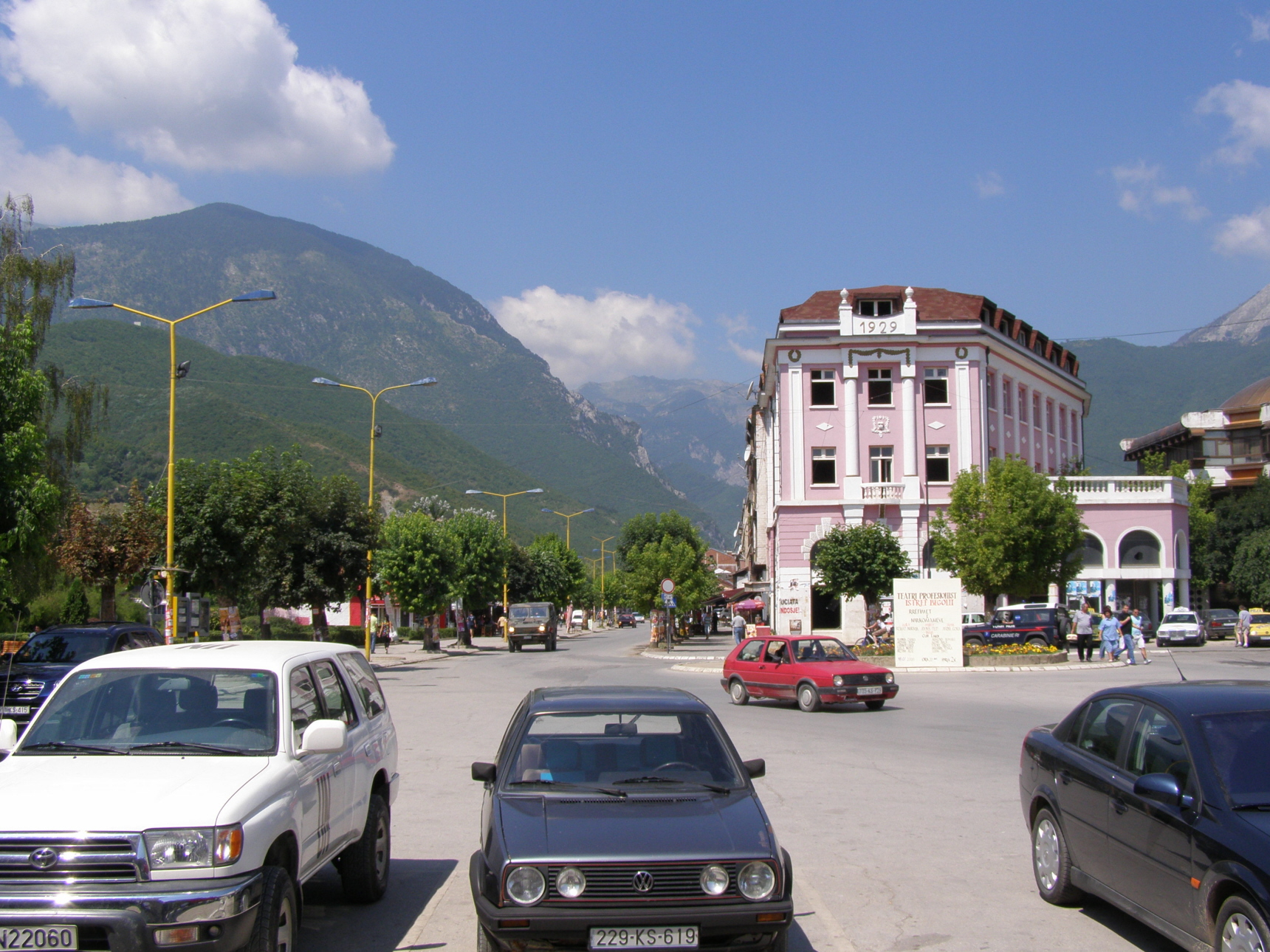 The main promenade in Peć (Kosovo)